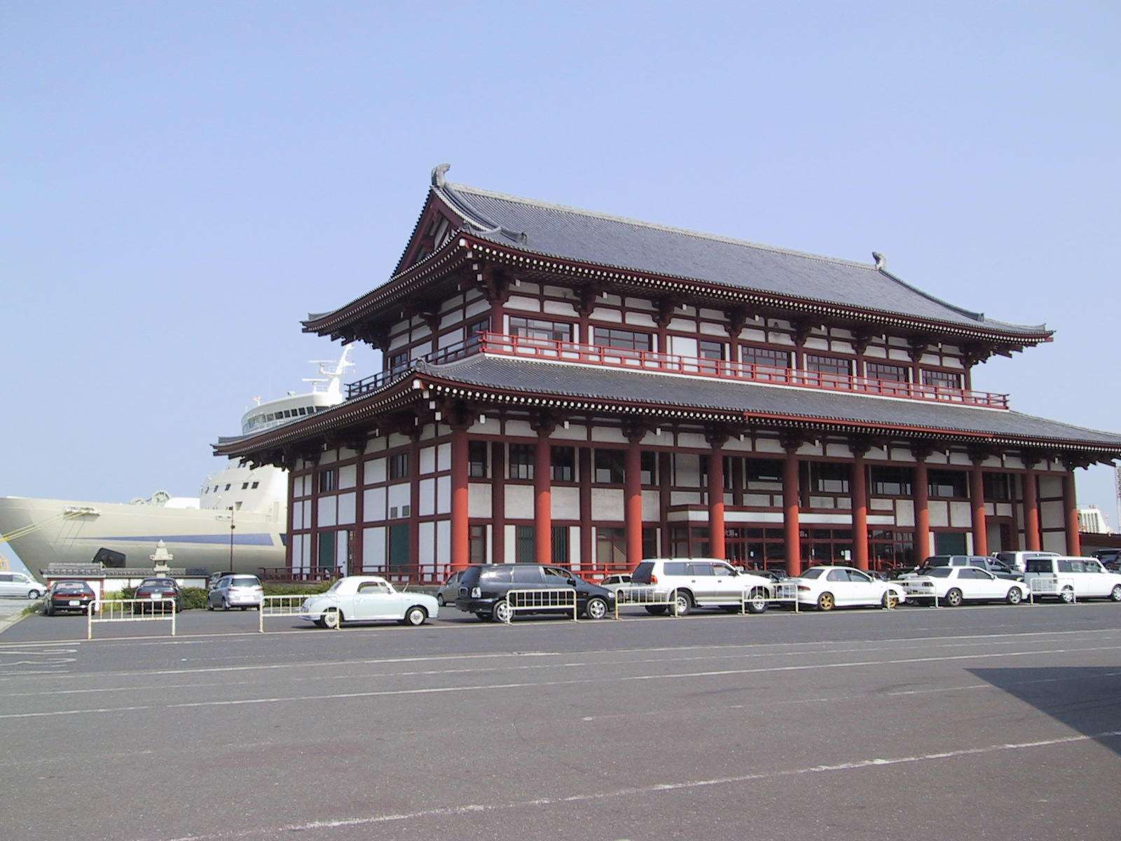 Shin-moji ferry terminal, Moji-ku, Kitakyushu-shi, Fukuoka, Japan